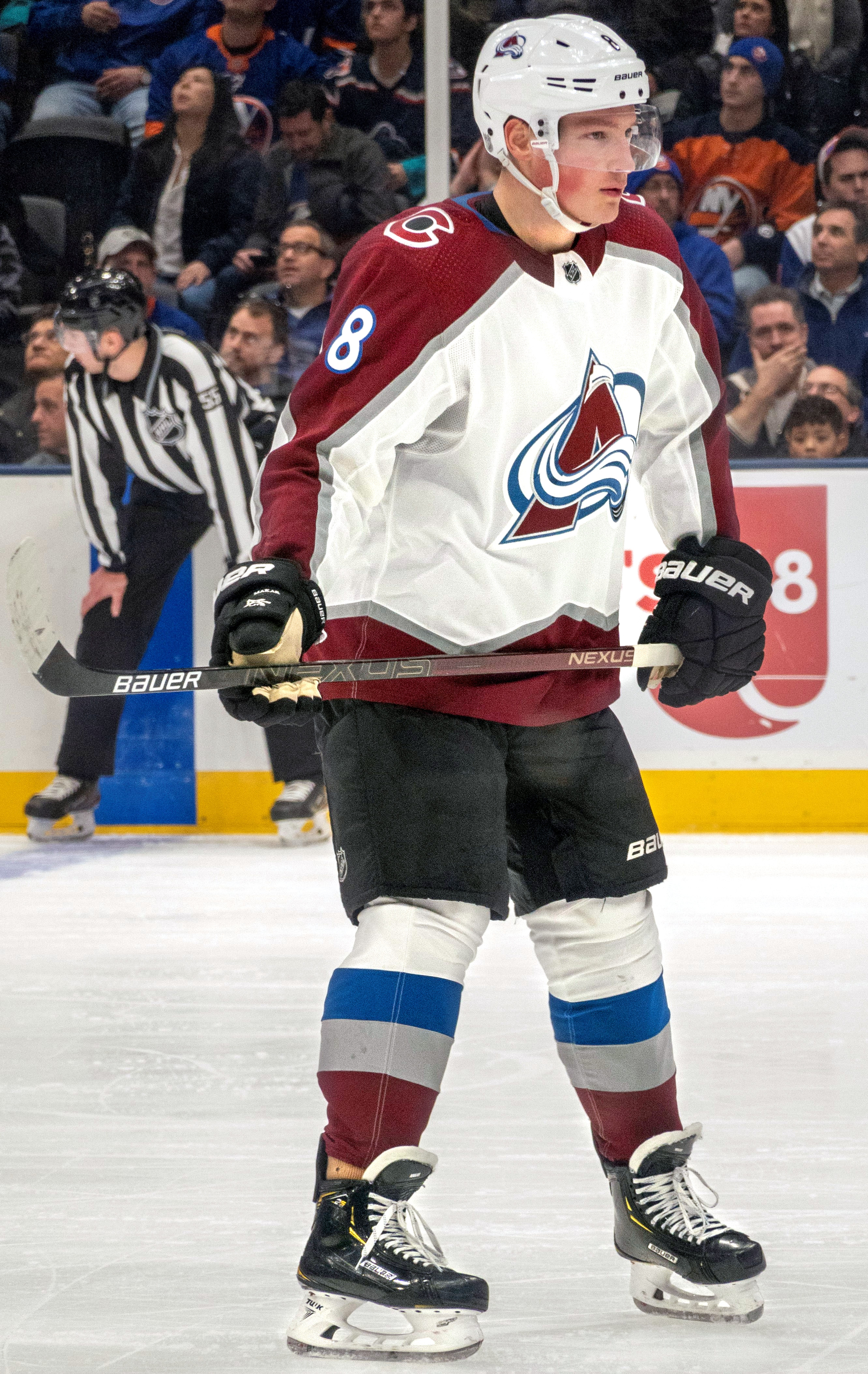 Cale Makar playing with the Avalanche vs Islanders on January 6, 2020